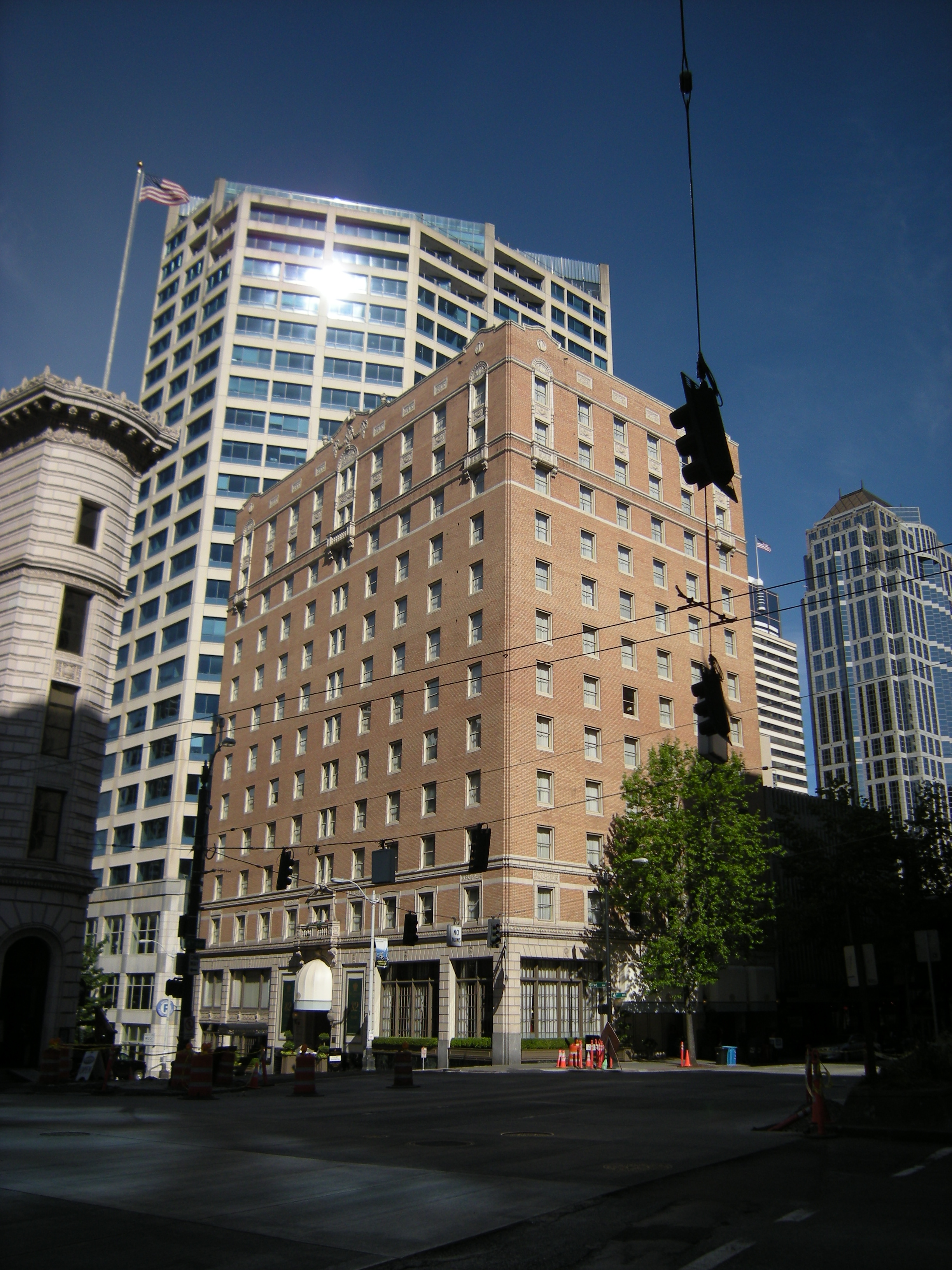 Mayflower Park Hotel (originally Bergonian Hotel), Seattle, Washington. For more about the building, see Summary for 405 Olive WAY / Parcel ID 0659000030, Seattle Department of Neighborhoods.